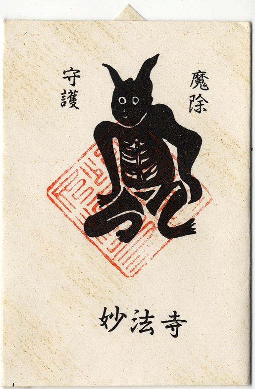 Talisman to ward off evil showing the Japanese monk Ryōgen (912-985) as the Horned Great Master (Tsuno Daishi). These folded envelops contain a small sheet of paper with Sanskrit characters depicting the "Seven Evils" or some magic words and are sold by (Tendai-) temples throughout Japan.